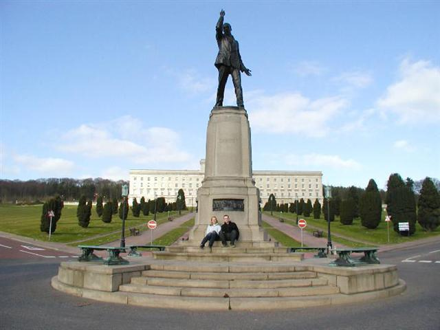 Stormont, Belfast It is open to tourists to view